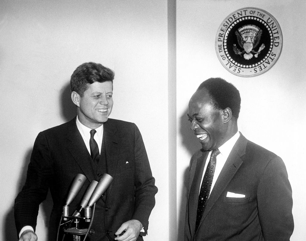 President John F. Kennedy Meets with the President of the Republic of Ghana, Osagyefo Dr. Kwame Nkrumah